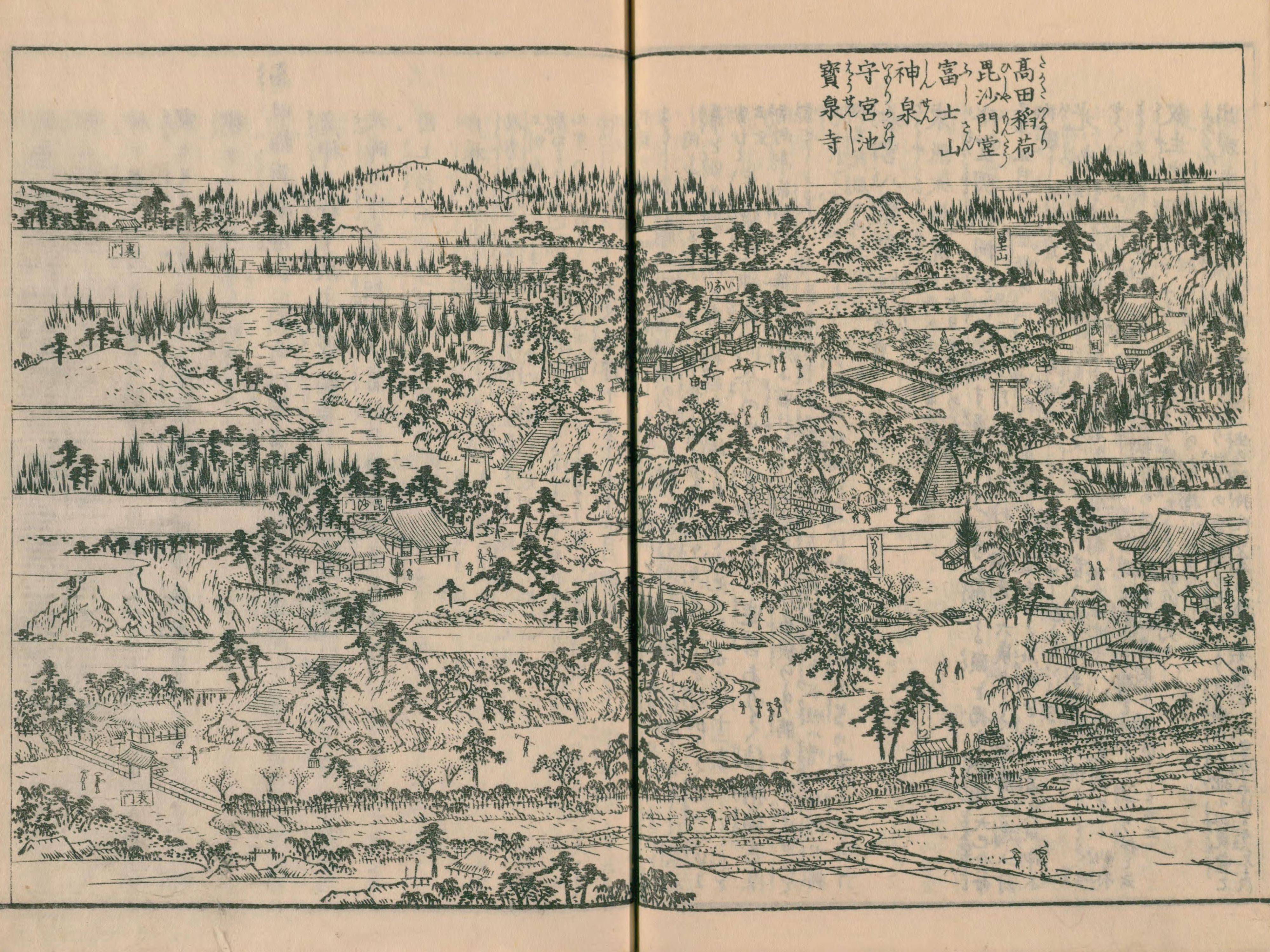 Takata Inari shrine and Hōsen-ji temple in Edo Meisho Zue vol. 4 (book 11)